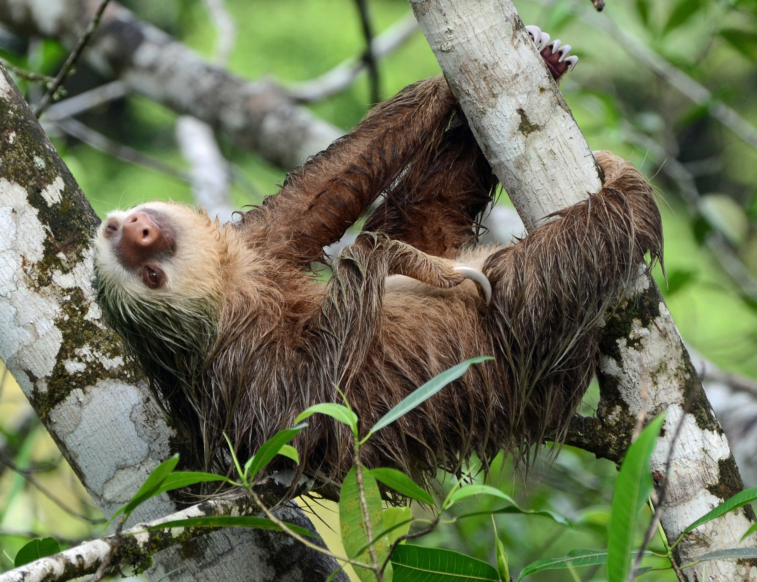 A two-toed sloth (Choloepus hoffmanni) at La Selva Biological Station, Sarapiqui, Costa Rica. The original version has been modified by cropping and increasing brightness.